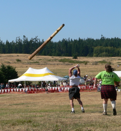 The caber toss event at the 2005 Whidbey Island Highland Games. The implement is seen in mid-flight just after being released by the competitor.